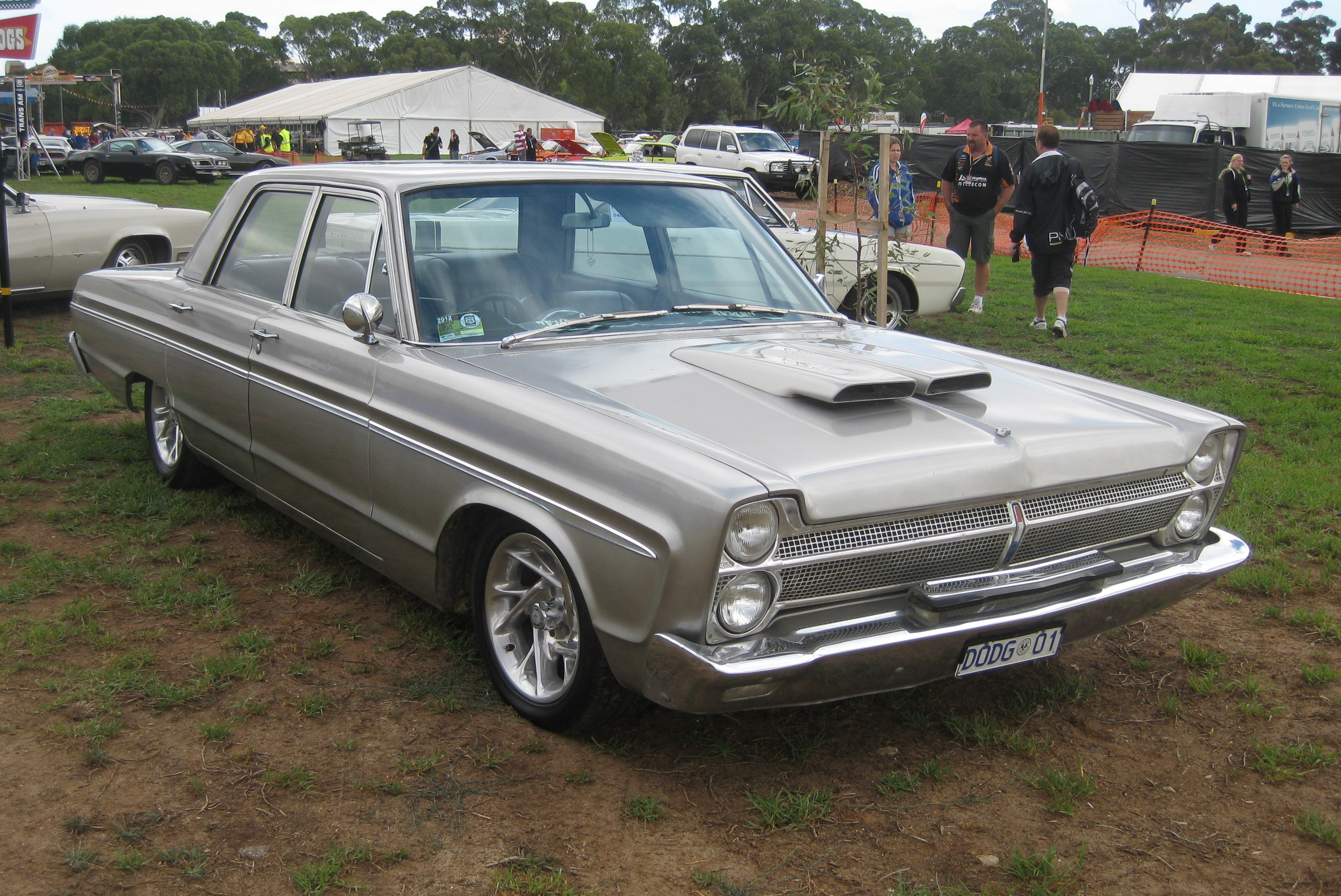 AP2D series Dodge Phoenix. The AP2D was produced by Chrysler Australia from 1965 to 1966. The example pictured has non standard wheels and bonnet scoops.